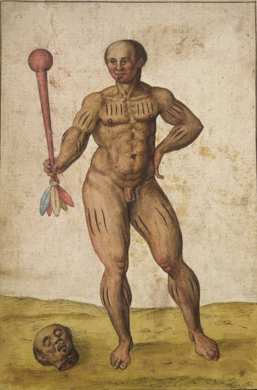 A Tupinamba Indian from Brazil; standing, nude, his body embellished with vertical parallel scars, with shaved head and wearing a labret, a club with feathers in his right hand, and a severed head on the ground